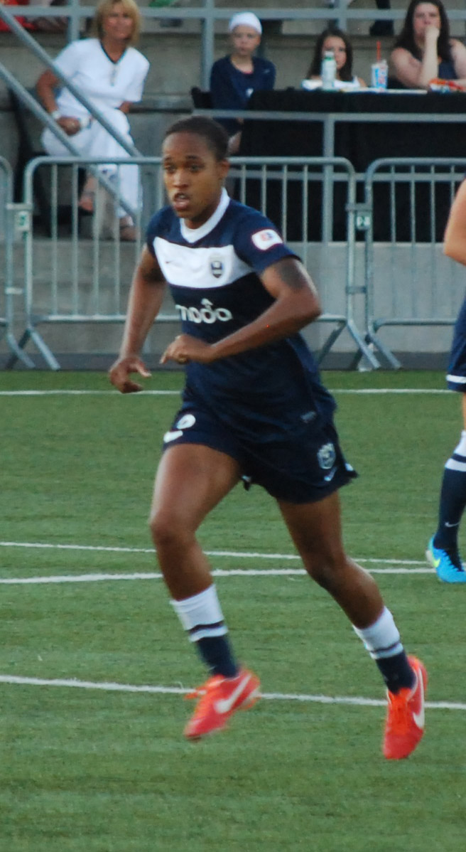 Jessica McDonald during a match against the Chicago Red Stars on July 25, 2013 at Starfire Stadium in Tukwila, Washington.